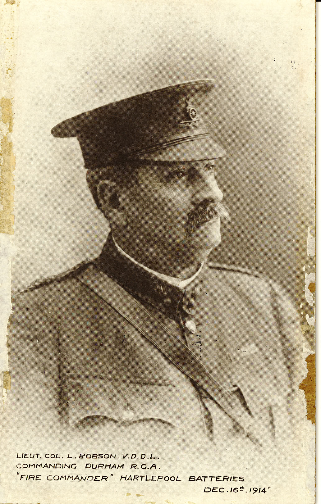 Portrait photograph of Lieutenant Colonel Lancelot Robson V.D.D.L., Commanding Durham R.G.A. (Royal Garrison Artillery), Fire Commander, Hartlepool Batteries, Dec. 16th 1914. The bombardment of the Hartlepools by Germany took place on this date, the batteries being one of the main targets. It was the first time British civilians were in the line of enemy fire during a World War. HAPMG : 1972.75.11 For more information about the Hartlepool Batteries please visit Images from Hartlepool Cultural Services that are part of The Commons on Flickr are labeled 'no known copyright restrictions' indicating that Hartlepool Cultural Services is unaware of any current copyright restrictions on these images either because the copyright is waived or the term of copyright has expired. Commercial use of images is not permitted. Applications for commercial use or for higher quality reproductions should be made to Hartlepool Cultural Services, Sir William Gray House, Clarence Road, Hartlepool, TS24 8BT. When using the images please credit 'Hartlepool Cultural Services'.